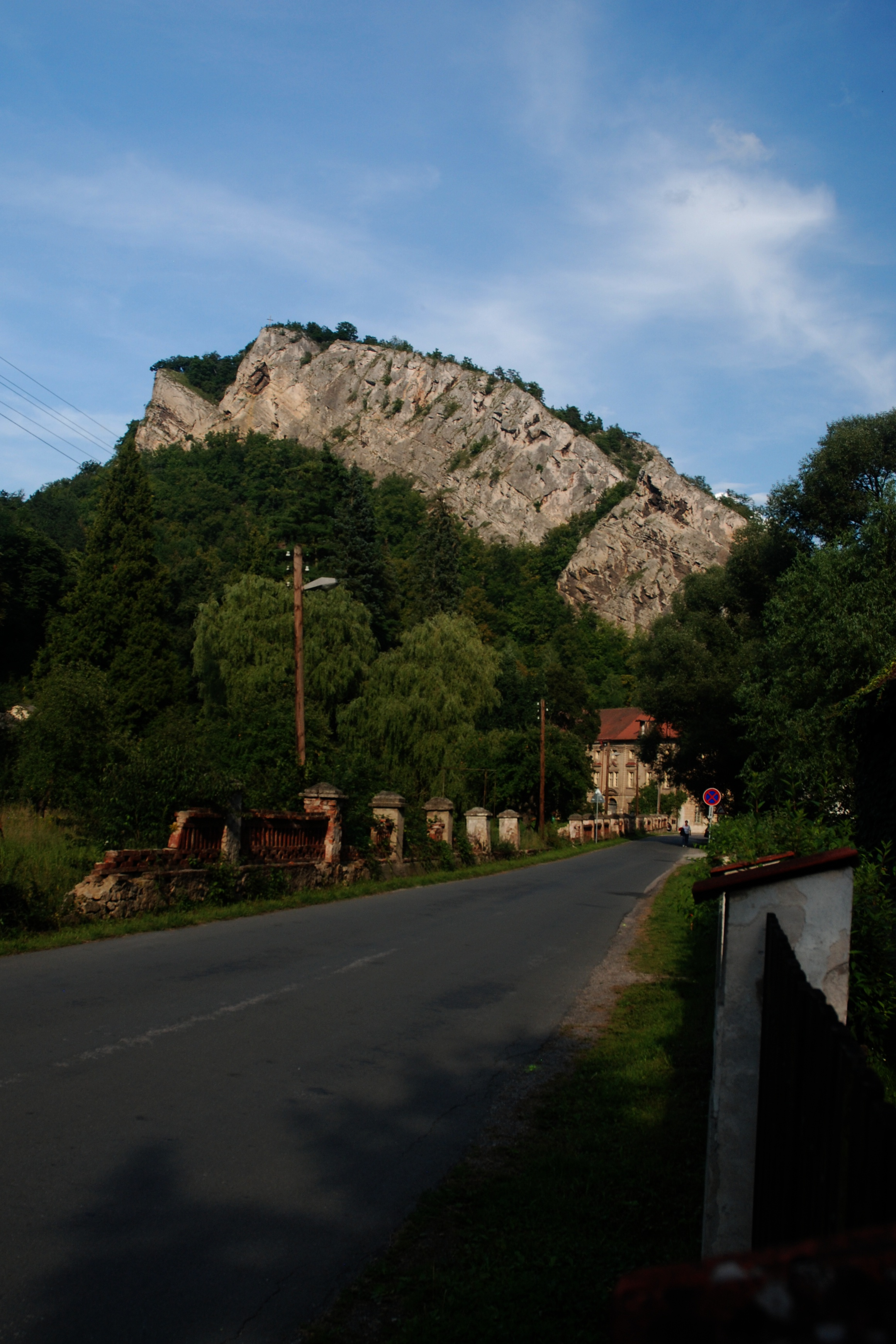 This photograph was taken within the scope of the third year of the 'Czech Municipalities Photographs' grant. Svatojánská skála - celkový pohled